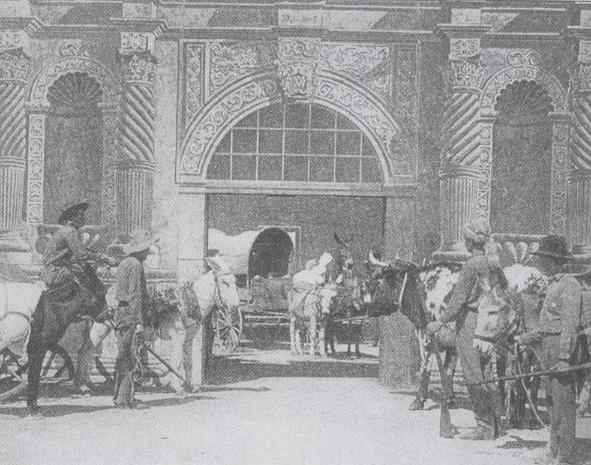 This painted backdrop was used in the movie The Immortal Alamo, filmed and released in 1911. The movie was the first film about the battle of the Alamo and has since been lost. This still from the movie was reprinted in Frank Thompson's 2005 book The Alamo.